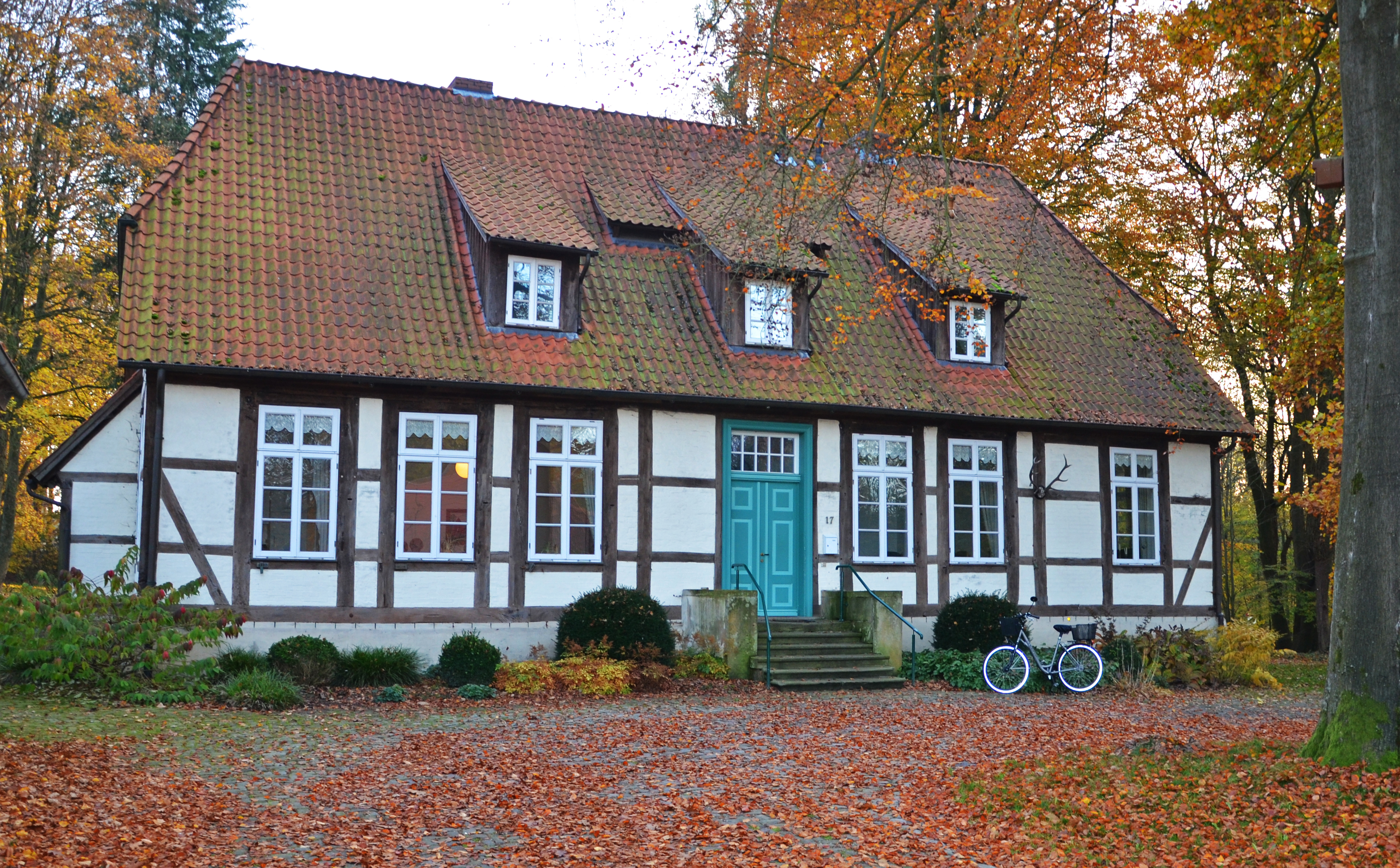 Culötural heritage monument in Bassum Neubruchhausen